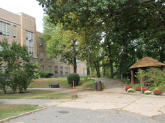 Patrick Dannenhoffer photographed the school in the Spring of 2014